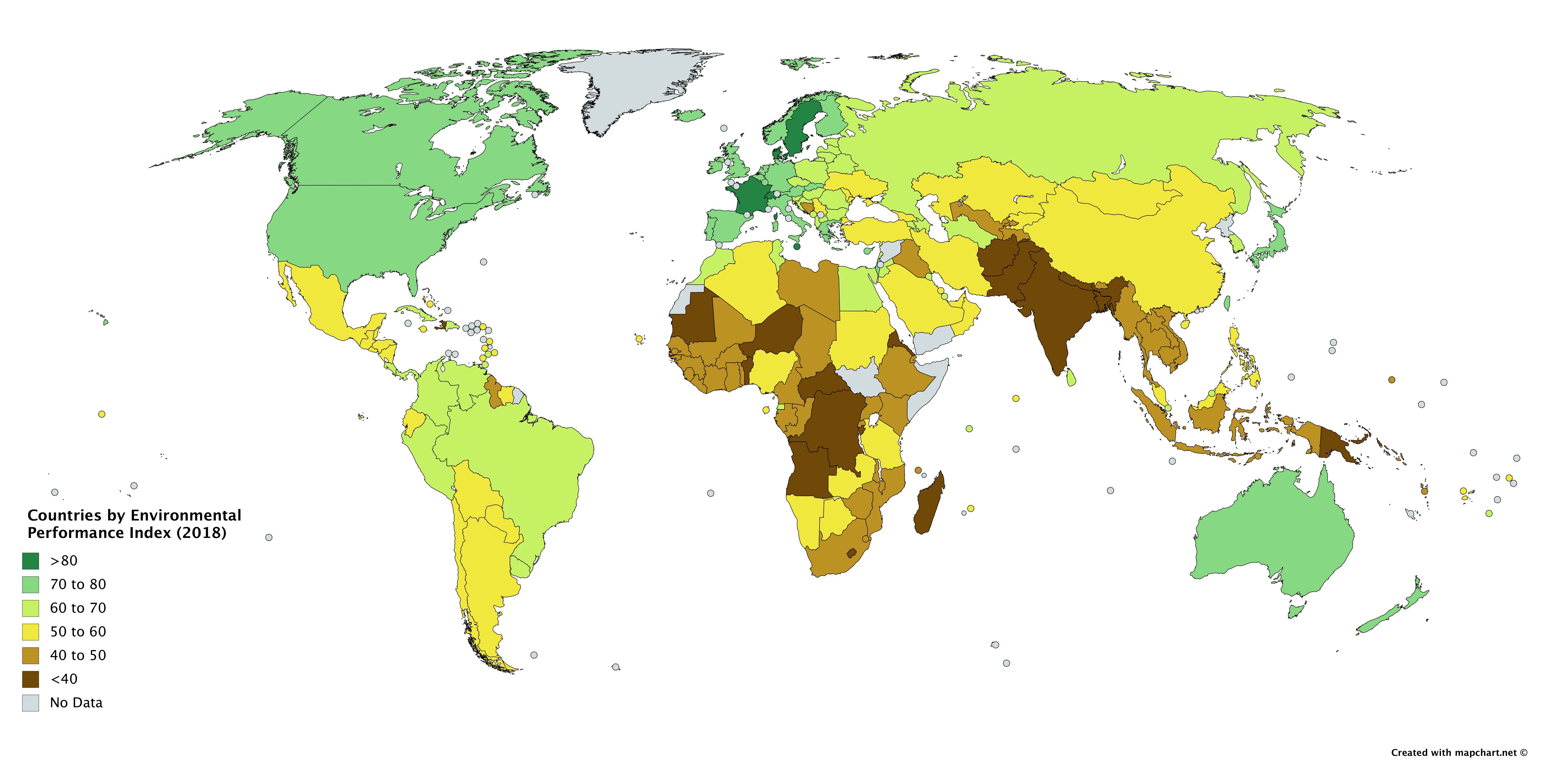 A choropleth world map showing the Environmental Performance Index of different countries in 2018, based on data from here.